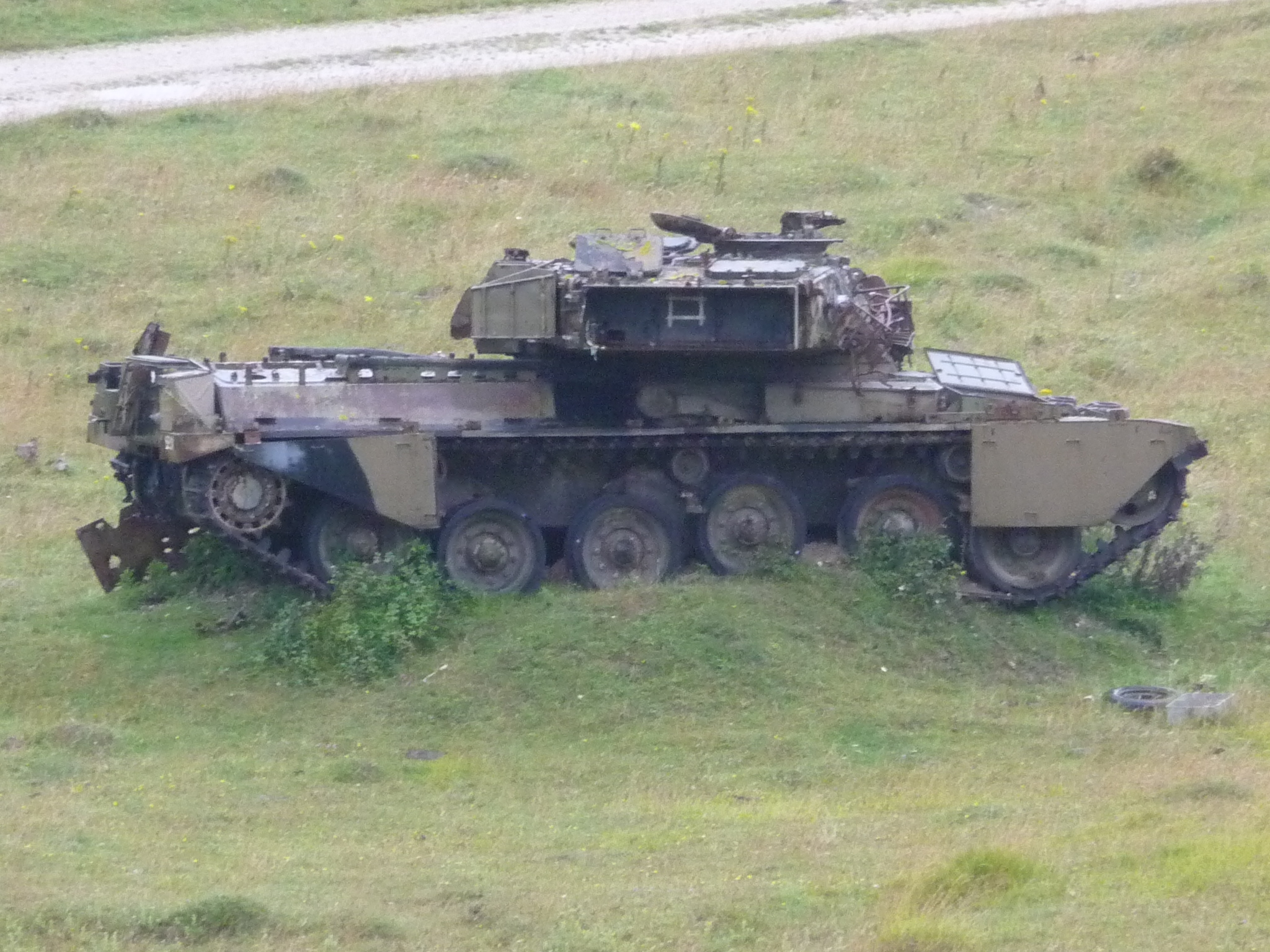 Tank as a firing range target.